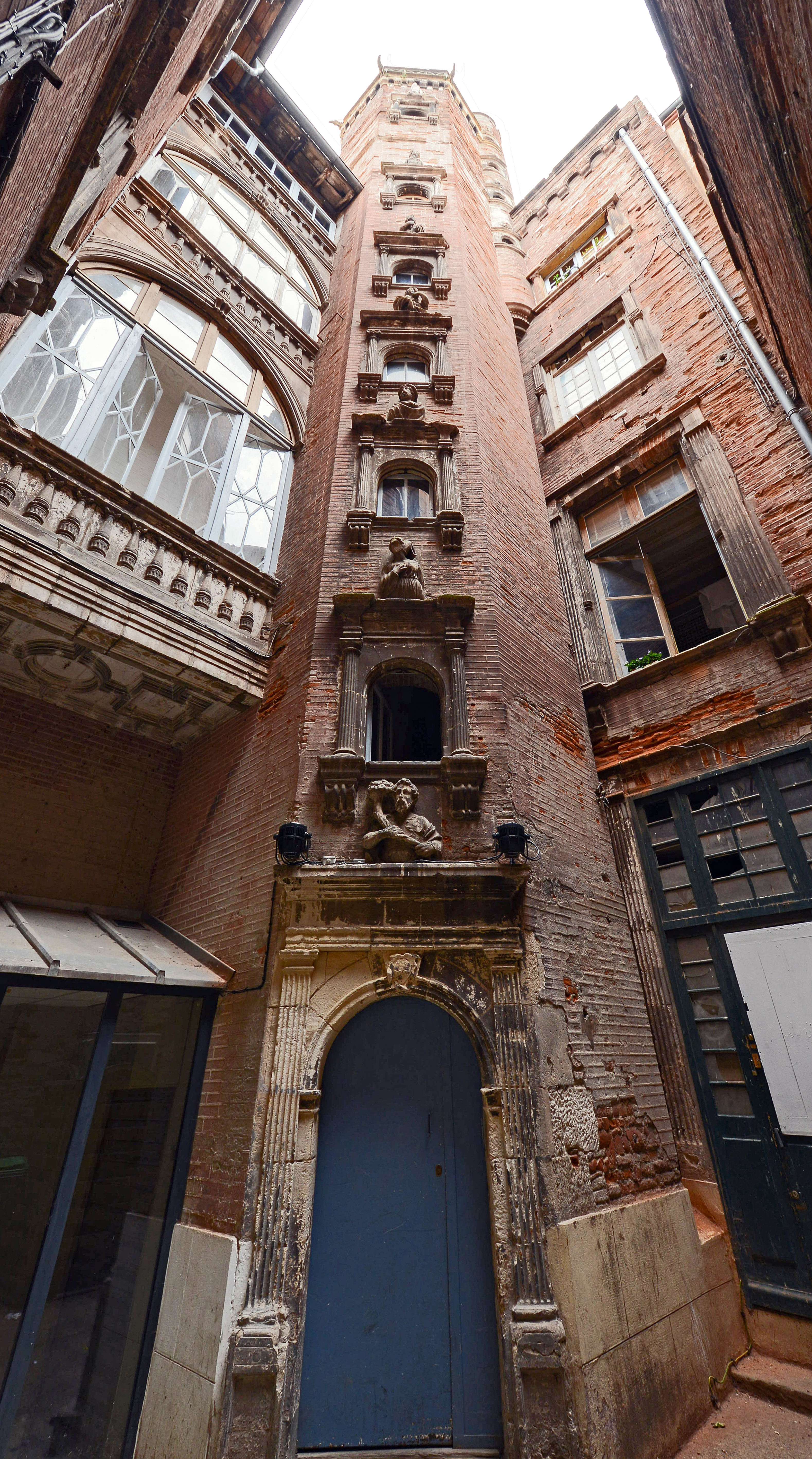 Hôtel d'Arnaud de Brucelles in Toulouse. Chapter tower, built in 1532 by the capitoul Arnaud de Brucelles. It serves seven floors and ends with false battlements arches, crowned by an openwork stone balustrade. The door is surmounted weapons of capitoul.